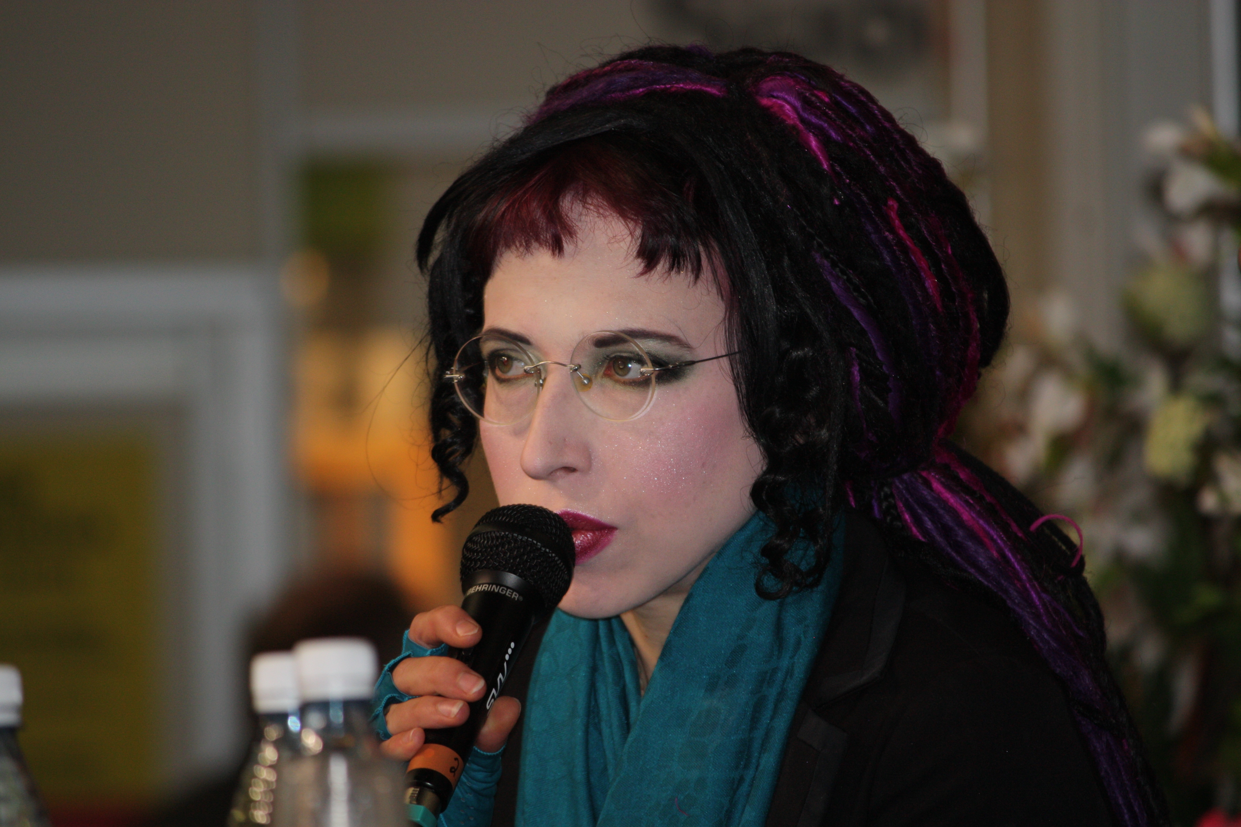 Finnish writer Sofi Oksanen at the Helsinki Book Fair 2012